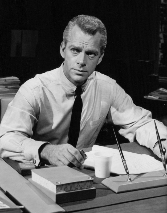 Photo of Keith Andes as Jeff Morgan from the short-lived daytime drama Paradise Bay.